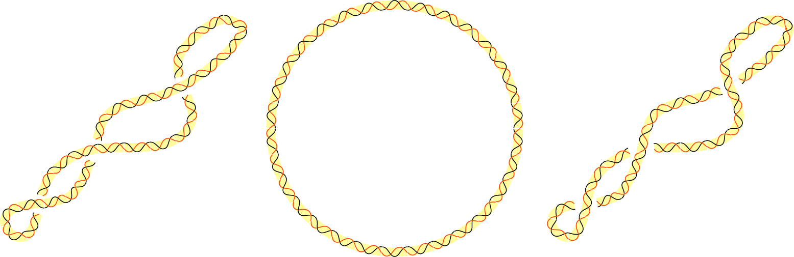 Topoisomers of a circular DNA molecule. Center : relaxed DNA. Left : right-handed superhelix (negative supercoiling). Right : left-handed superhelix (positive supercoiling)